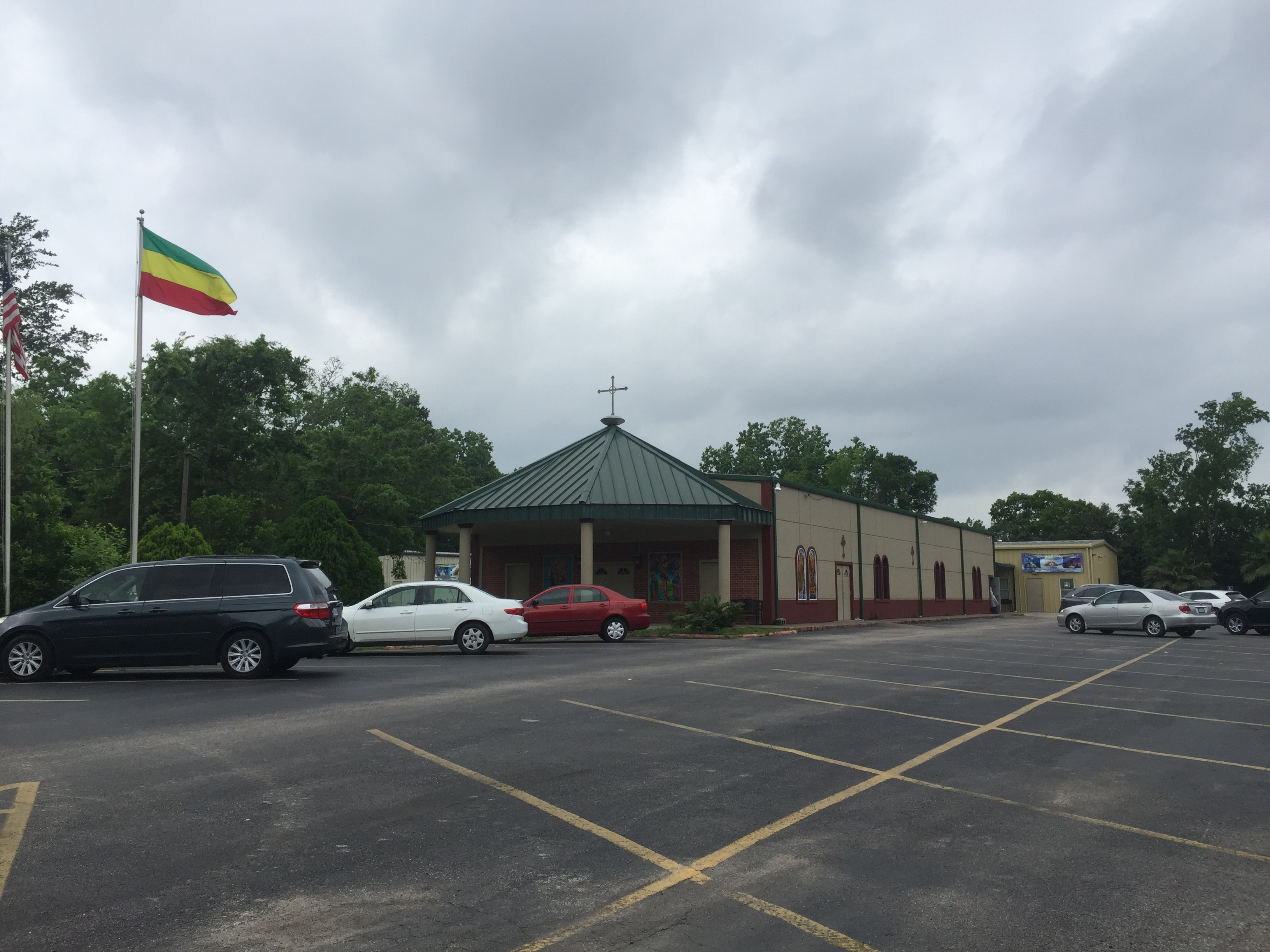 Debre Selam Medhanealem Ethiopian Orthodox Tewahedo Church (DSMEOTC; Amharic: ደብረ ሰላም መድኃኔዓለም የኢትዮጵያ ኦርቶዶክስ ተዋሕዶ ቤተ ክርስቲያን Debre Selam MedhaneAlem YeItyopphya Ortodoks Tewahedo Bete Kristiyan; the name approximately means "Sanctuary of Peace and the Savior") - 11614 Canemont St. Houston, TX 77035 አማርኛ: ደብረ ሰላም መድኃኔዓለም የኢትዮጵያ ኦርቶዶክስ ተዋሕዶ ቤተ ክርስቲያን (Debre Selam Medhanealem Ethiopian Orthodox Tewahedo Church; DSMEOTC) - 11614 Canemont St. Houston, TX 77035